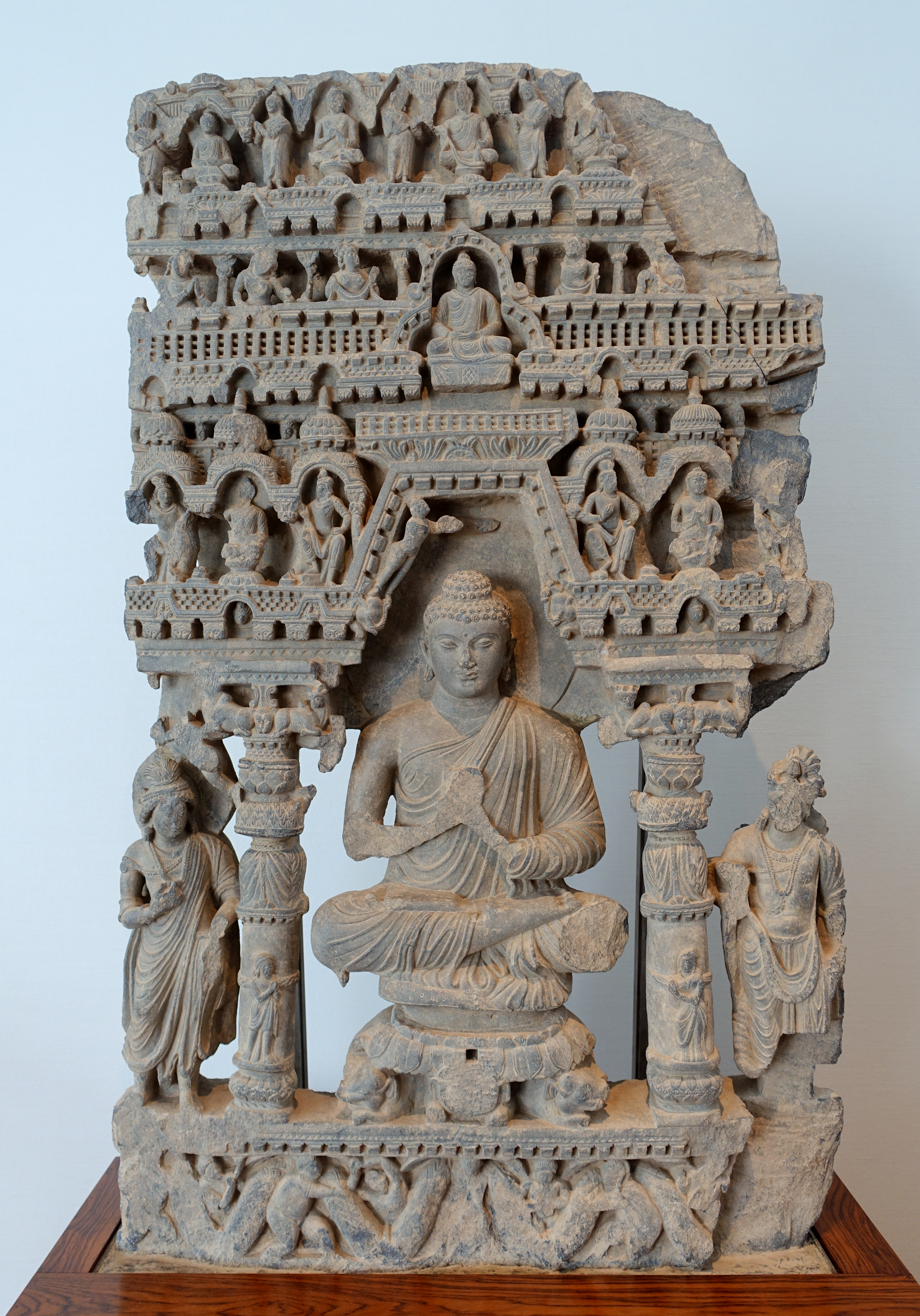 Exhibit in the Matsuoka Museum of Art - 5 Chome-12-6 Shirokanedai, Minato, Tokyo 108-0071, Japan.